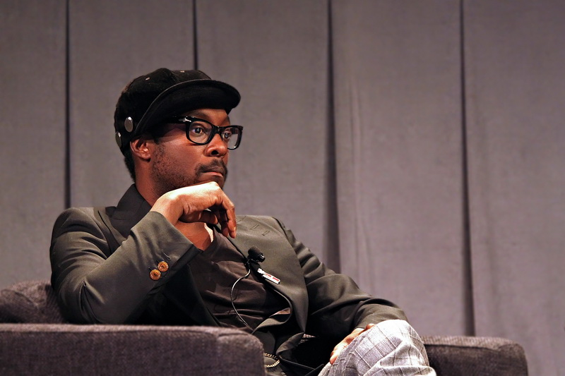 Recording artist and technophile will.i.am will participate in a CES panel discussion on entrepreneurship and innovation.